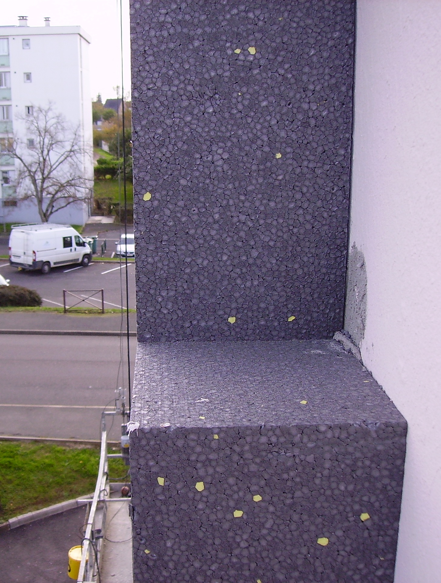 Insulation boards made of polystyrene closed-cell foam (EPS; board thickness: 20 cm) by Sto; applied on an apartment building facade.